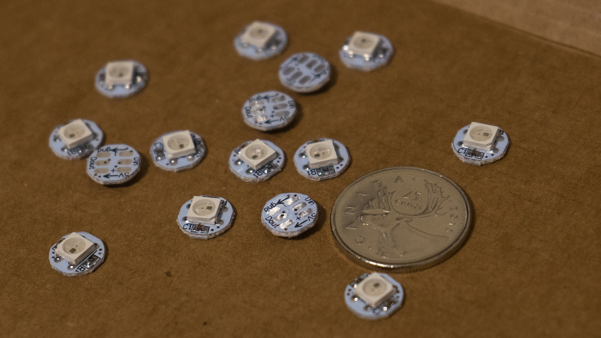 Adafruit Mini Neopixel Individually-Addressable RGB LEDs